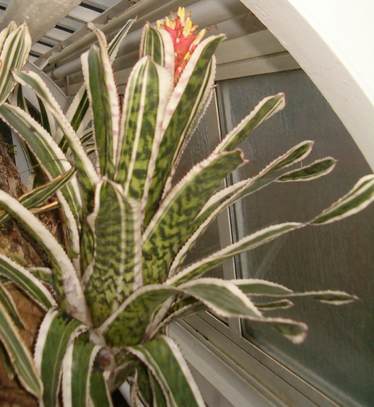 Location: Botanical Gardens Berlin Dahlem Habitus and Inflorescence